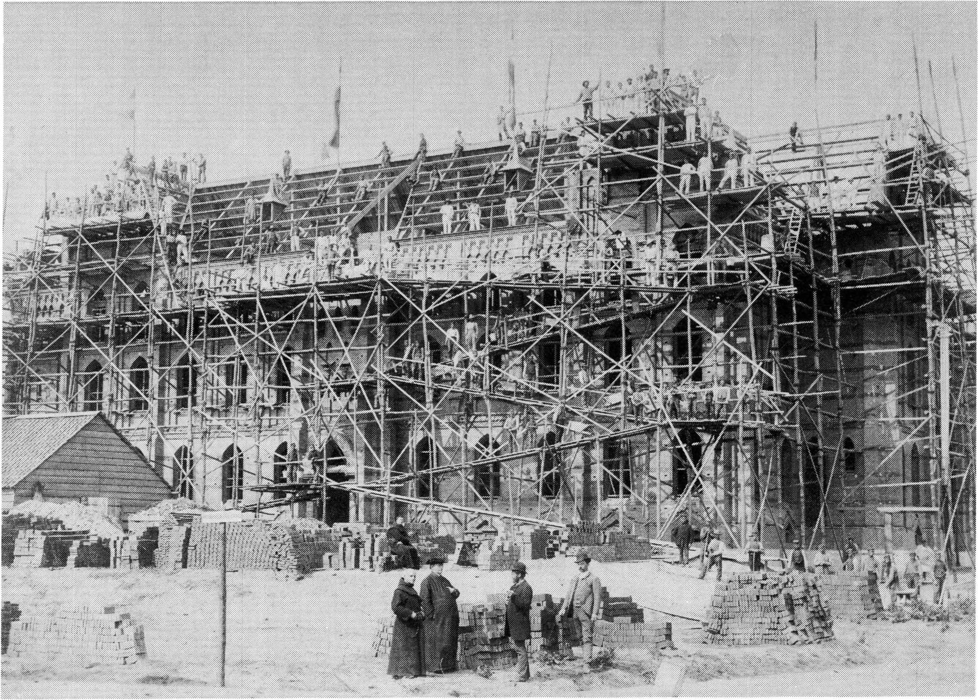 Construction of the Franciscan monastery Alverna, Wijchen, with P.J. van Lieshout and the architect, P. Stornebrink (with beard).